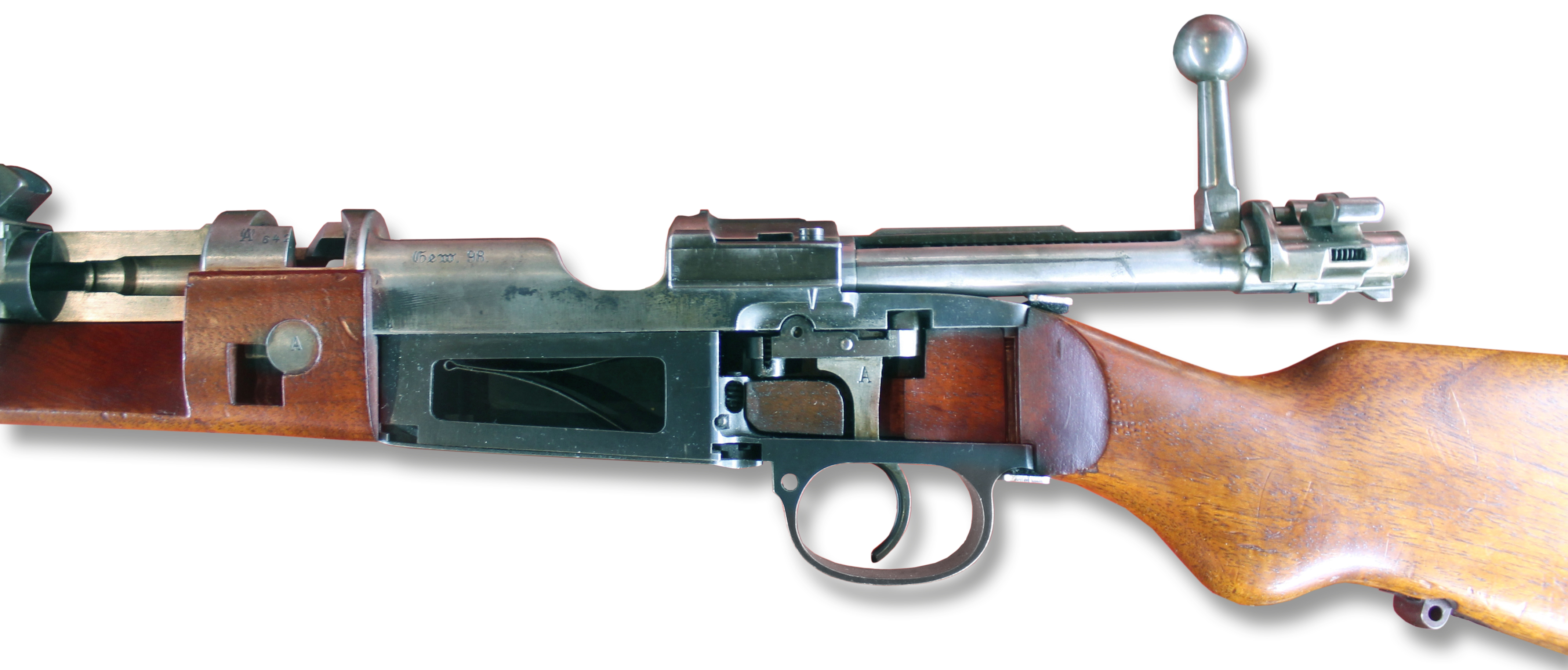 Cutaway model of a Gewehr 98 in the Waffenmuseum Suhl.